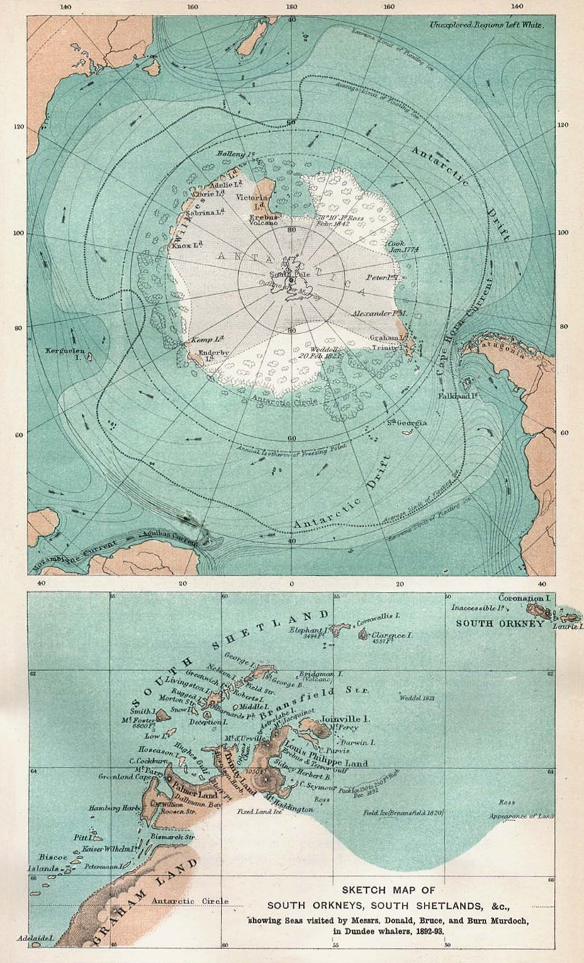 Sketch map of south polar region, 1894